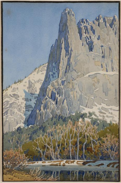 Sentinel Rock by Gunnar Widforss, watercolor on paper